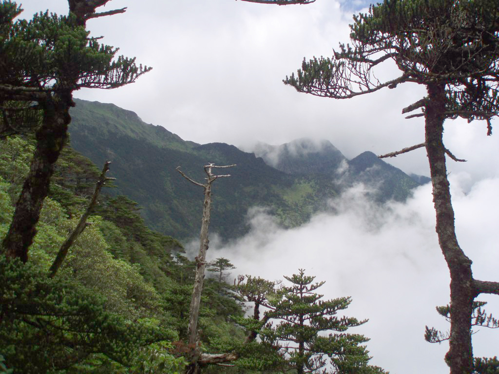 Abies delavayi, Cangshan, Dali, Yunnan, China